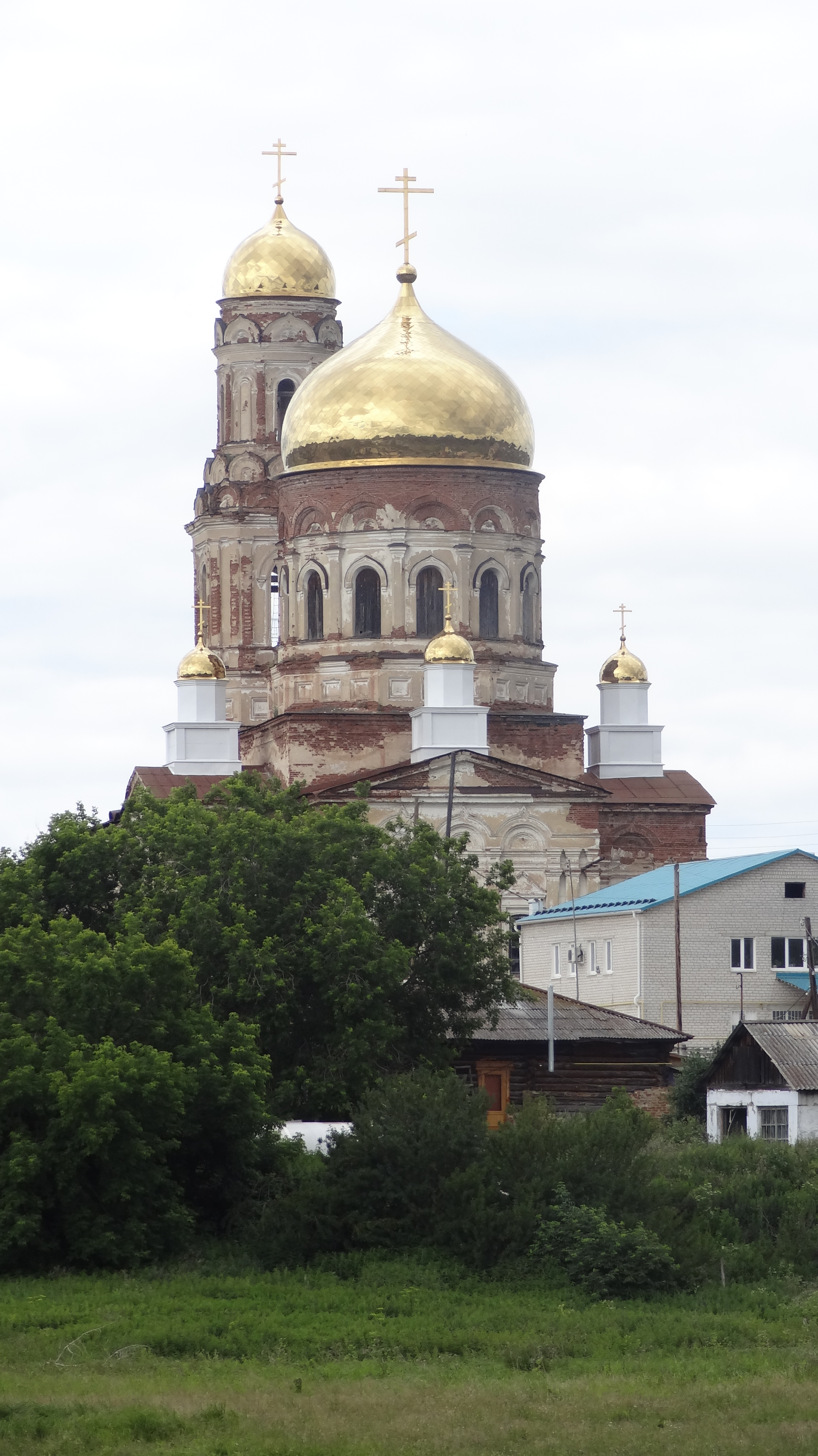 St. Michael the Archangel's Church in Maminskoe village, Sverdlovsk Oblast, Russia.